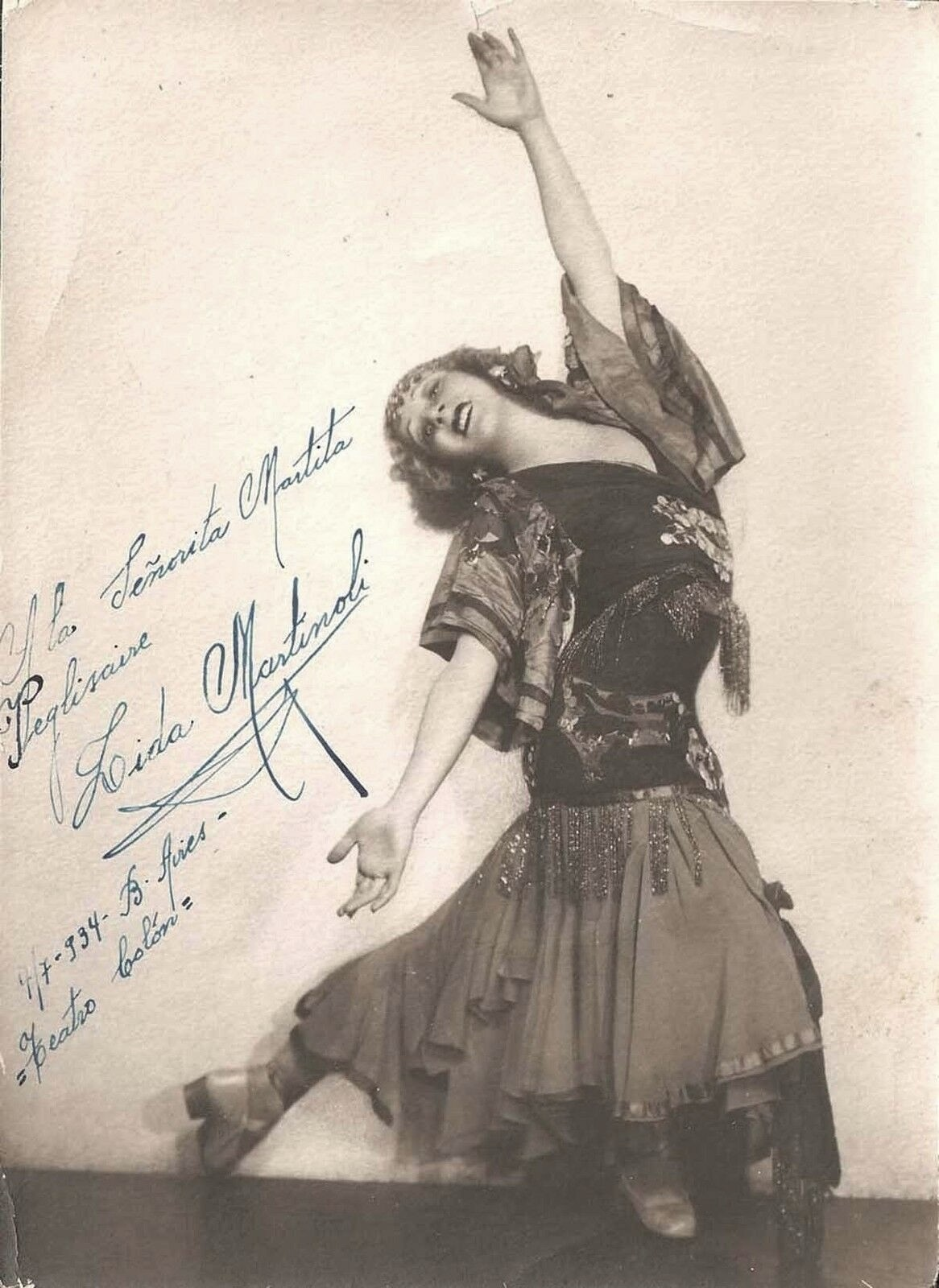 Lida Martinoli, handsigned photograph, c. 1940